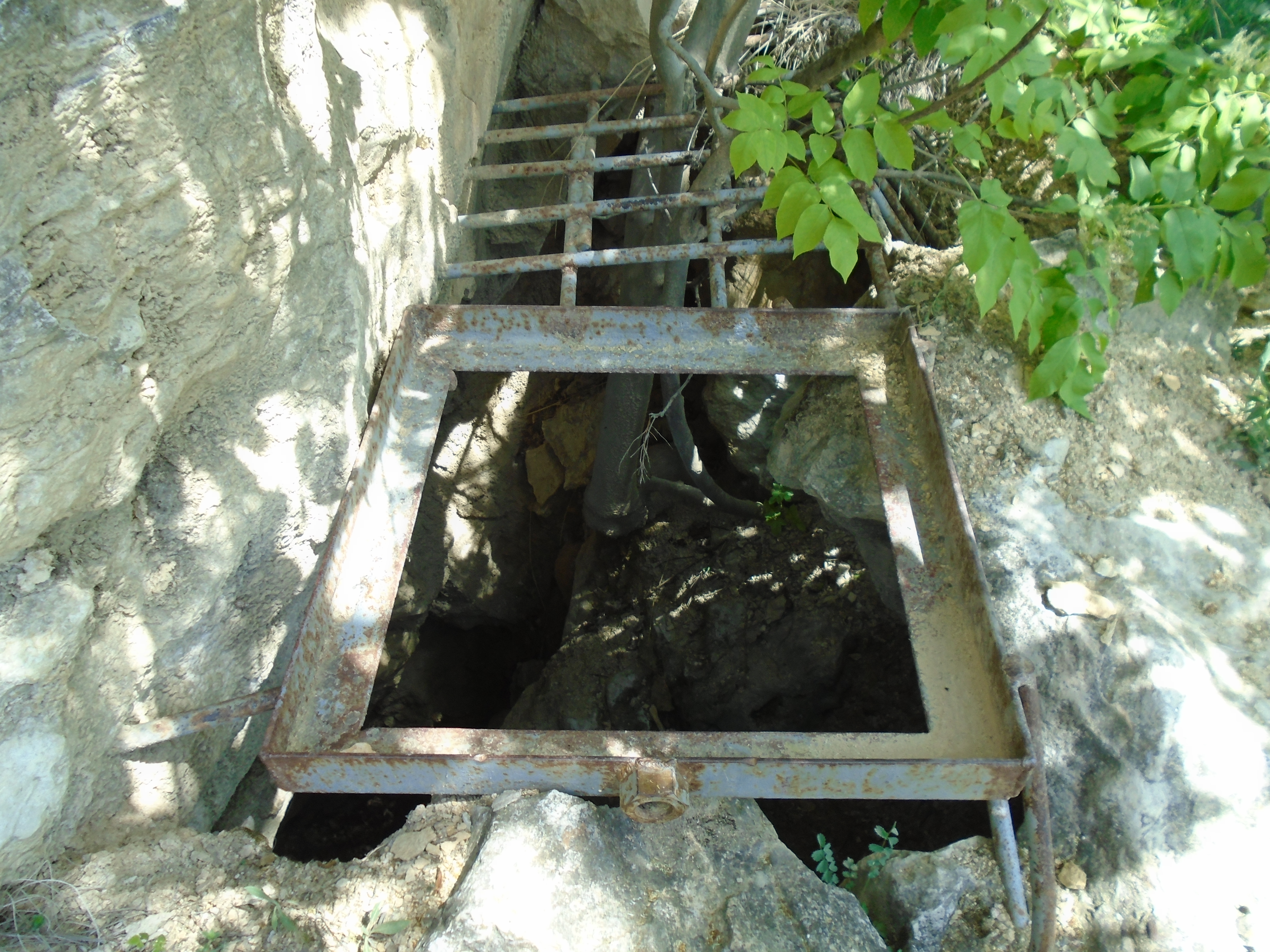 Entrance of Keleti quarry No 6 Cave.